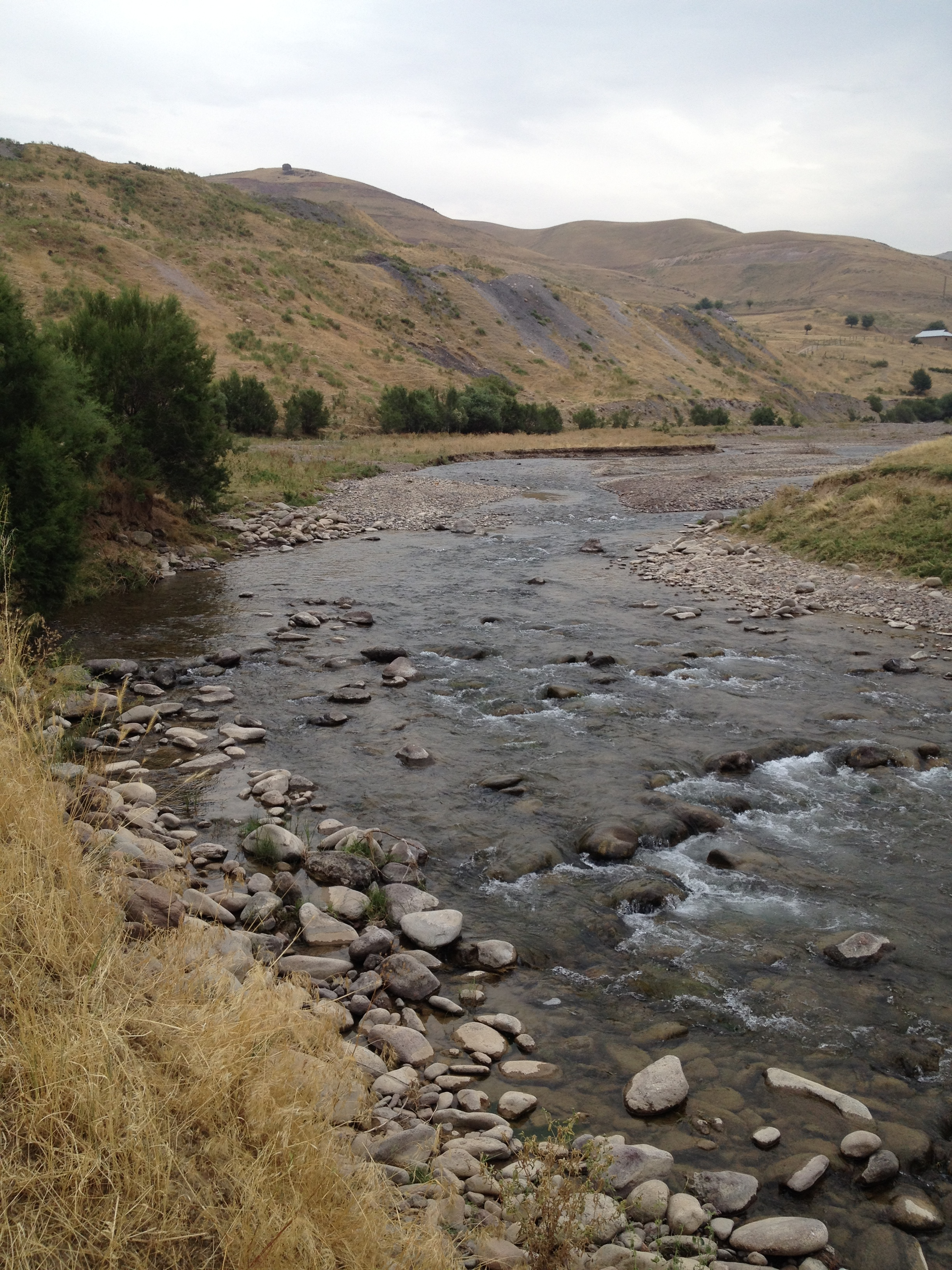 Nishbash Say river in lower reaches